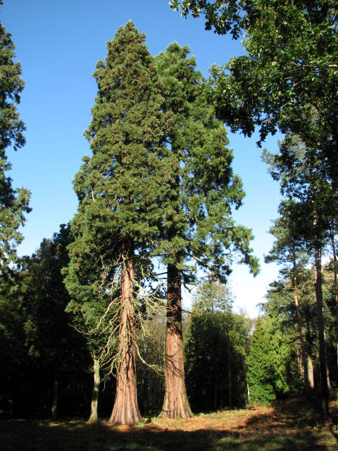 Mature Giant Sequoia trees in Gilham's Heath Plantation.